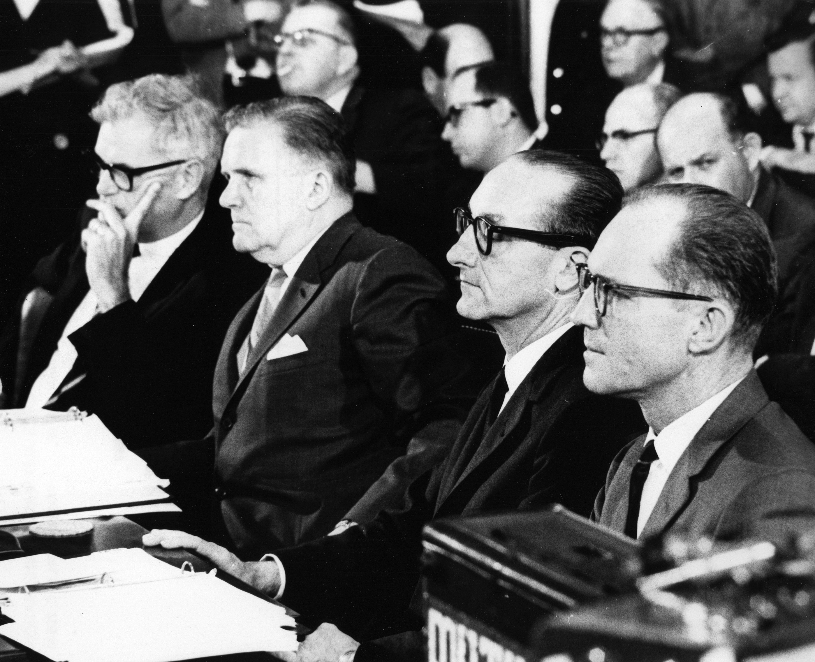 Seated at the witness table before the Senate Committee on Aeronautical and Space Services, chaired by Senator Clinton P. Anderson, on the Apollo 1 (Apollo 204) accident are (left to right): Dr. Robert C. Seamans, NASA Deputy Administrator James E. Webb, NASA Administrator Dr. George E. Mueller, Associate Administrator for Manned Space Flight Maj. Gen. Samuel C. Phillips, Apollo Program Director